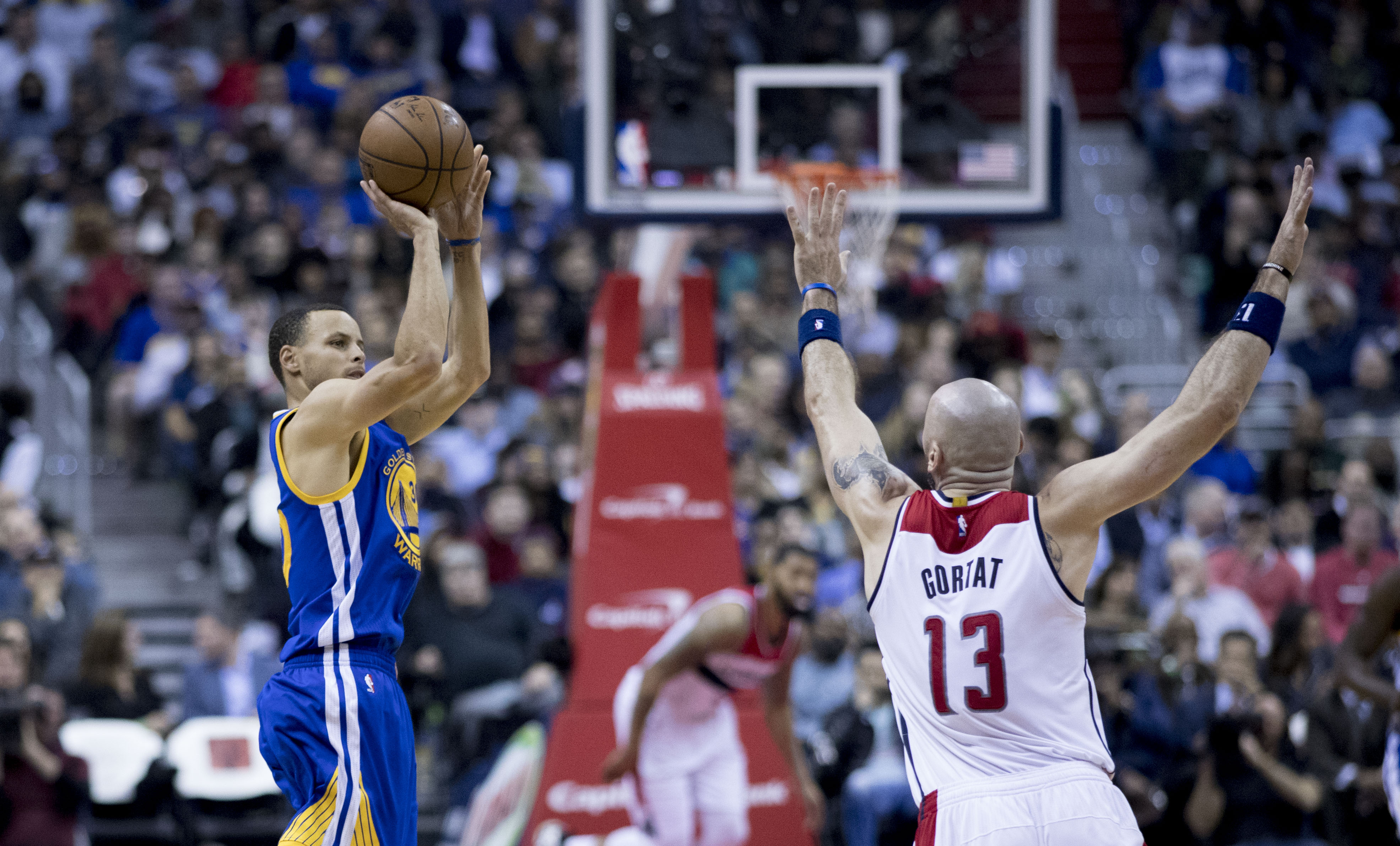 Warriors at Wizards 2/28/17